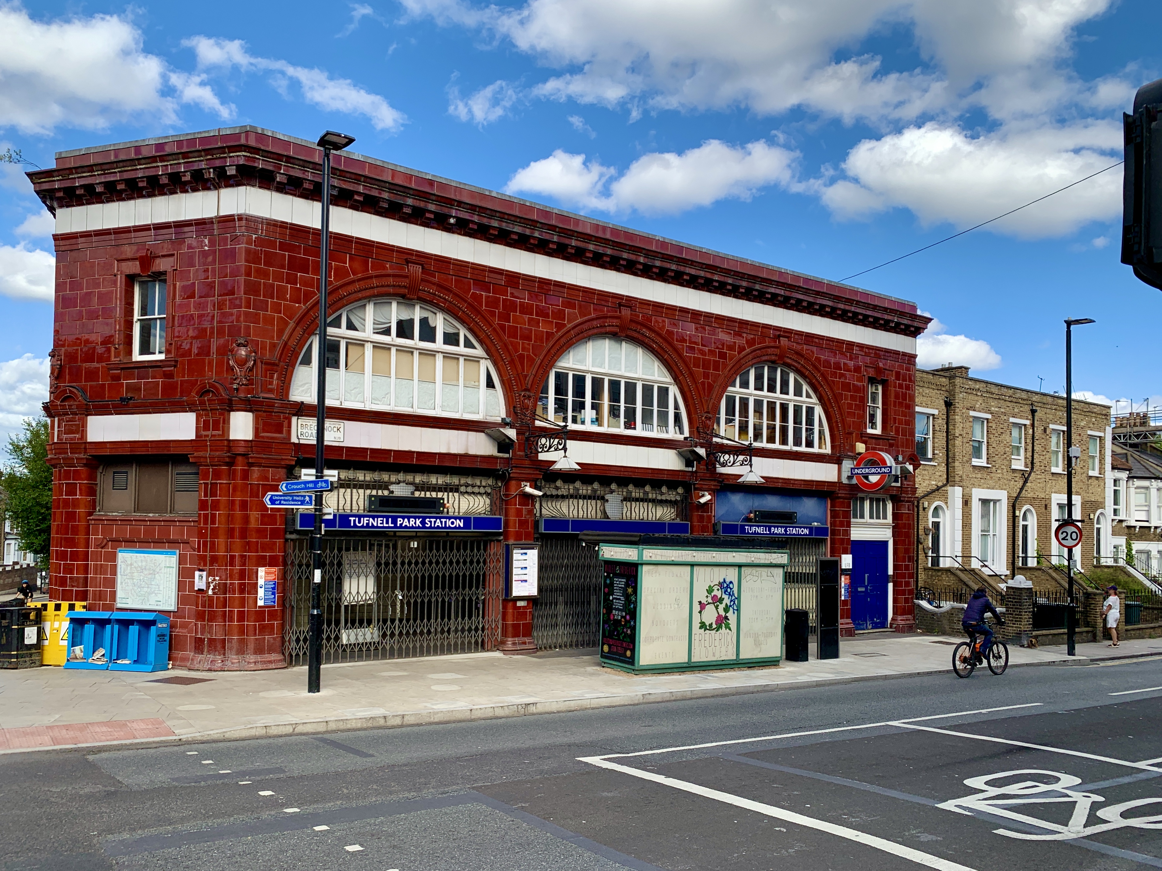 Station building of Tufnell Park tube station Taken during my Northern Line Tube Walk.